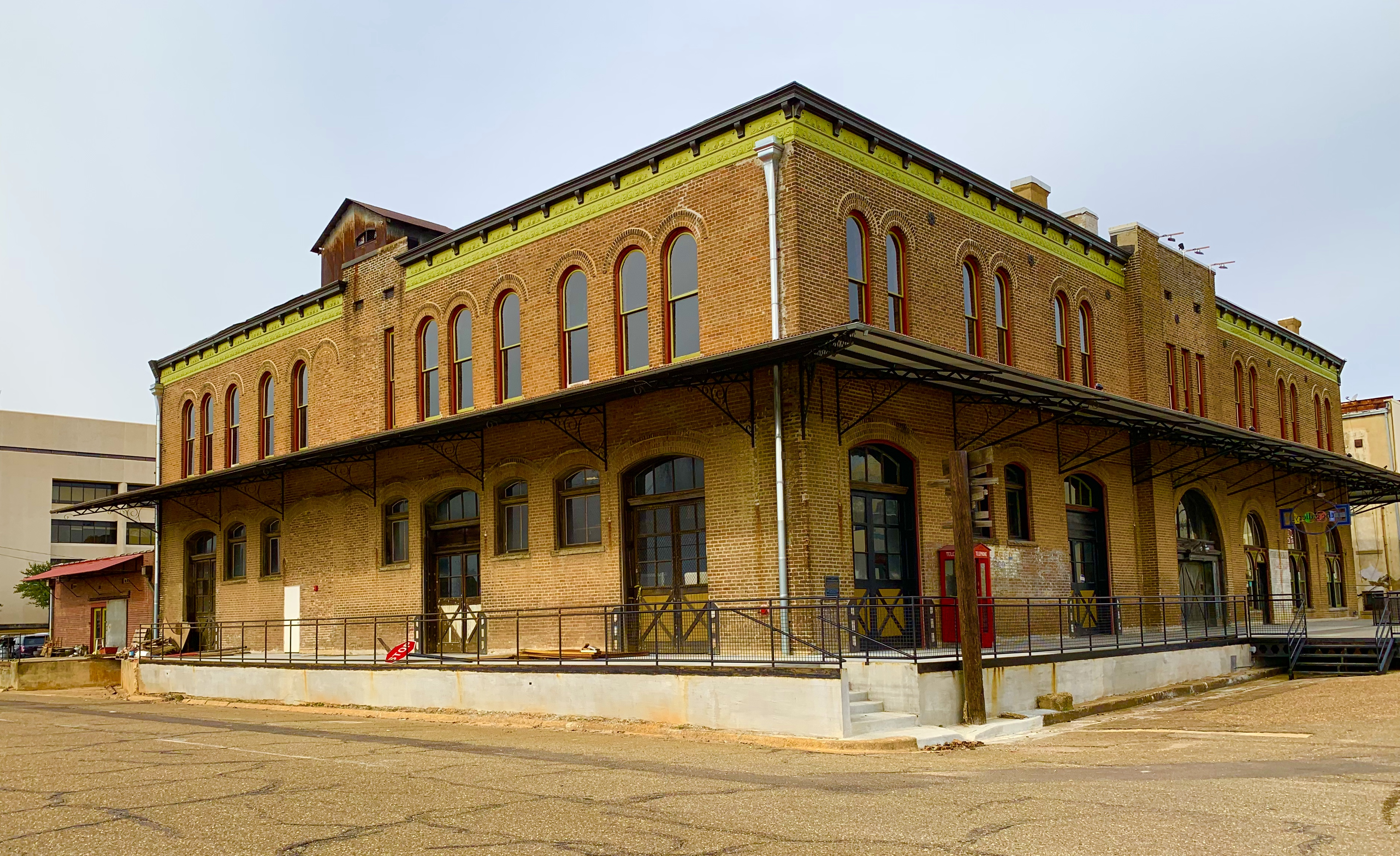 Picture of 1894 City Market (previously Ritchie Grocery) from January 2019. Shows the renovated exterior.